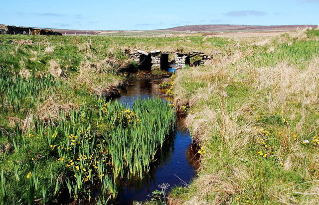 Burn of Lushan At least I hope it's the Burn of Lushan at this point. Taken 100 yards downstream from the Lushan's confluence with the Burn of Swartageo. Turf-covered clapper bridge in disrepair, but still beautiful.